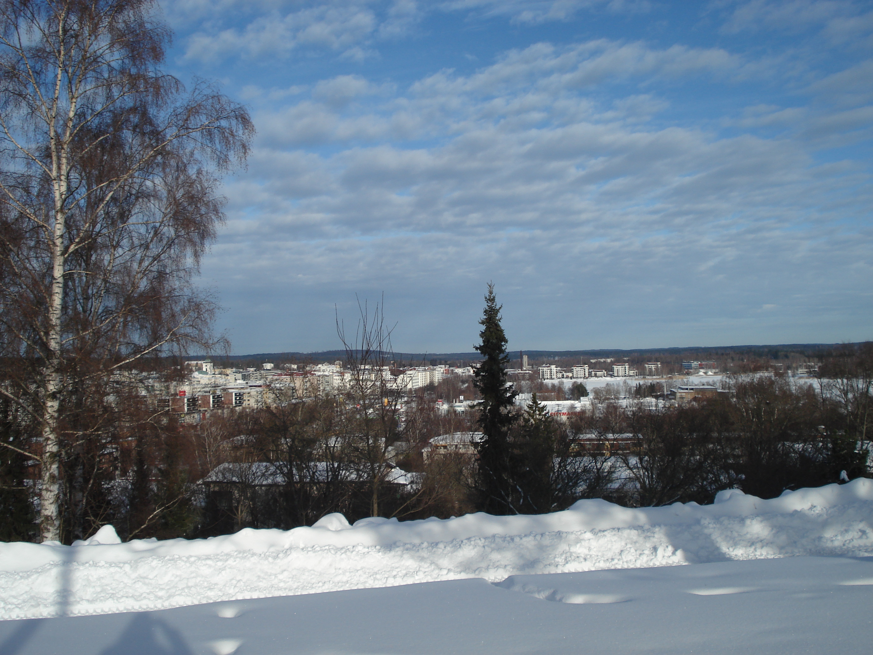 View of Hämeenlinna, Finland, from Myllymäki